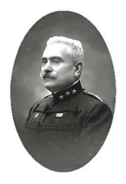 José César Ferreira Gil (1858-1922), Portuguese armyman and military historian.